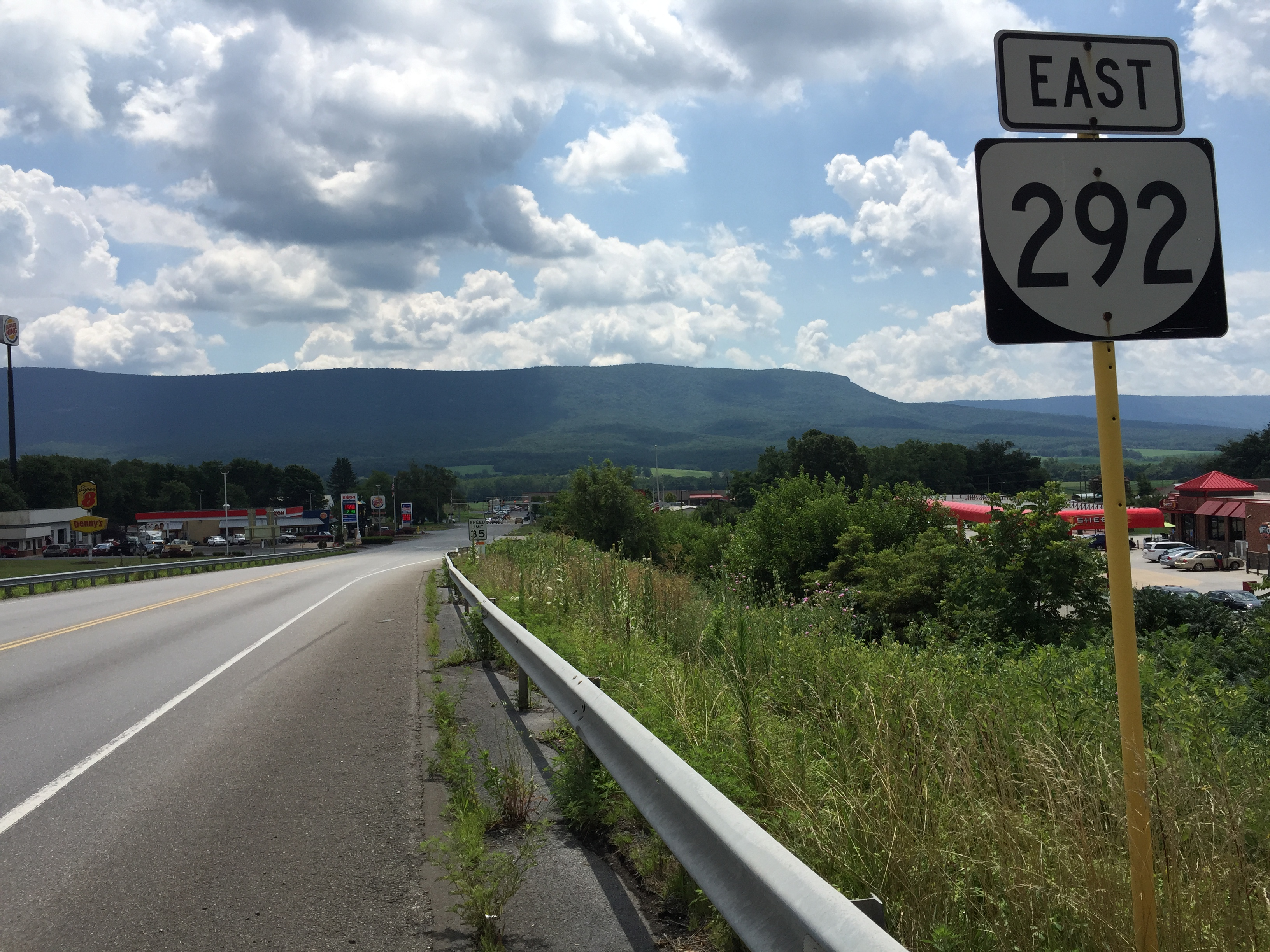 View southeast along Virginia State Route 292 (Conicville Road) just east of Interstate 81 and just northwest of Mount Jackson in Shenandoah County, Virginia